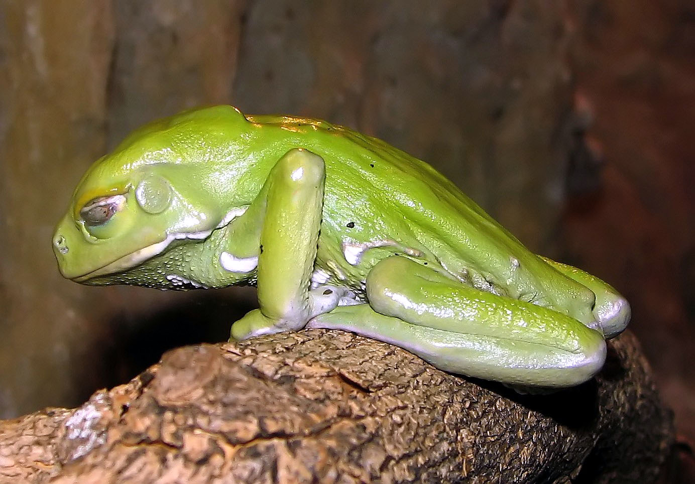 Waxy Tree Frog Phyllomedusa sauvagii at the Cotswold Wildlife Park, Burford, Oxfordshire, England.